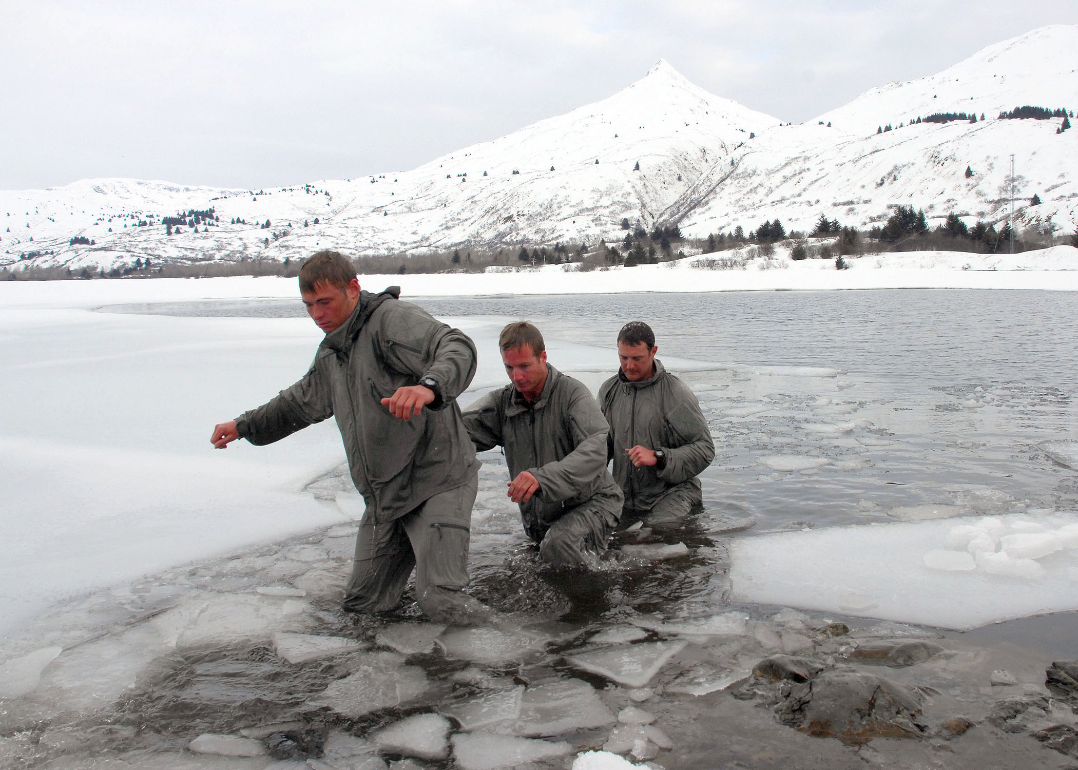 KODIAK, Alaska (April 8, 2009) SEAL Qualification Training candidates wade out of the Buskin River after spending five minutes in the near freezing water during a re-warming exercise. Candidates completed the re-warming exercise after spending 48 hours in the Alaskan mountains learning how to navigate through the rugged terrain and survive the frigid conditions. The 28-day cold-weather training course taught in Kodiak is part of a yearlong process to become a U.S. Navy SEAL. (U.S. Navy Photo by Mass Communication Specialist 2nd Class Erika N. Manzano/Released)